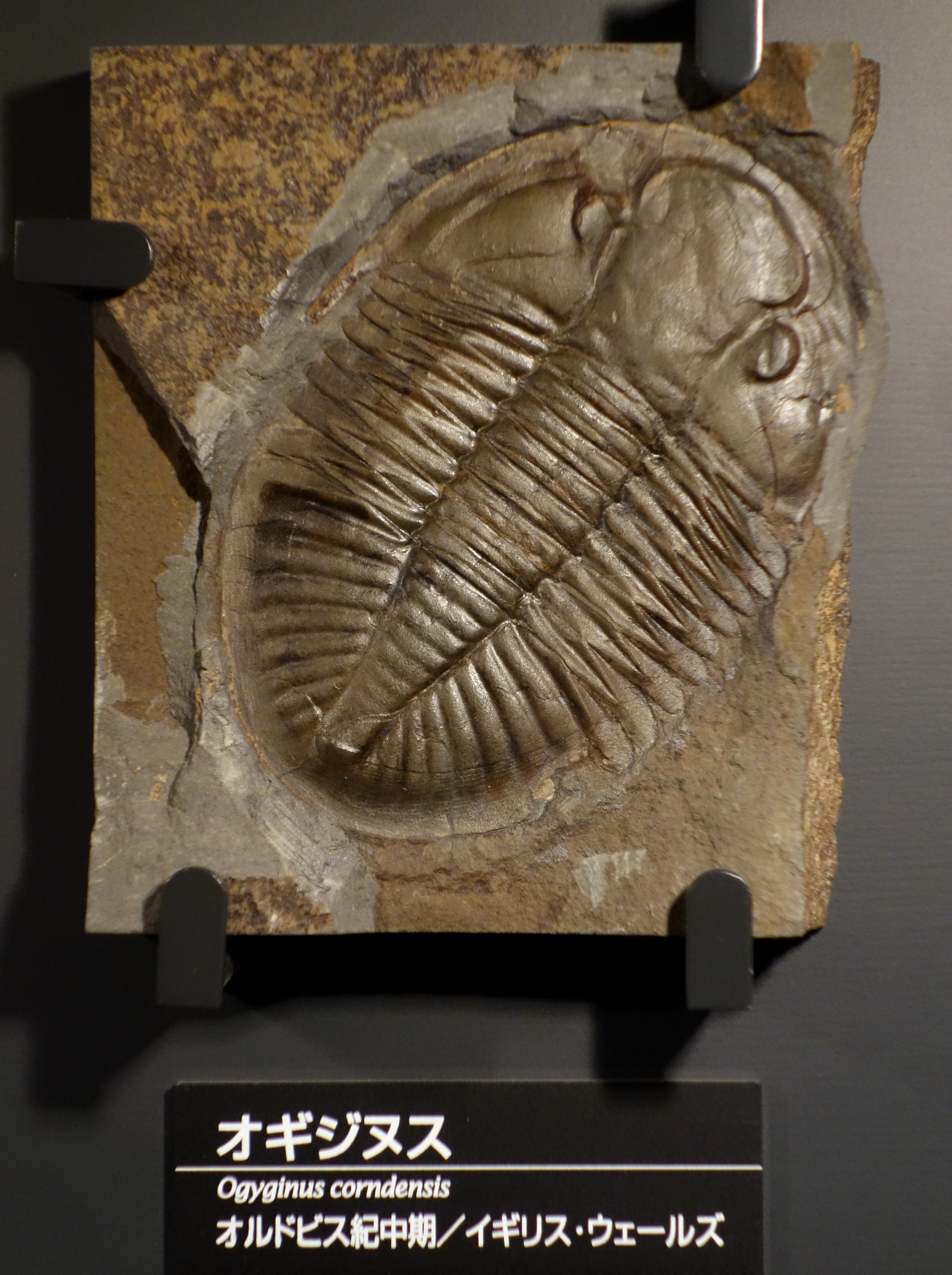 Exhibit in the National Museum of Nature and Science, Tokyo, Japan.